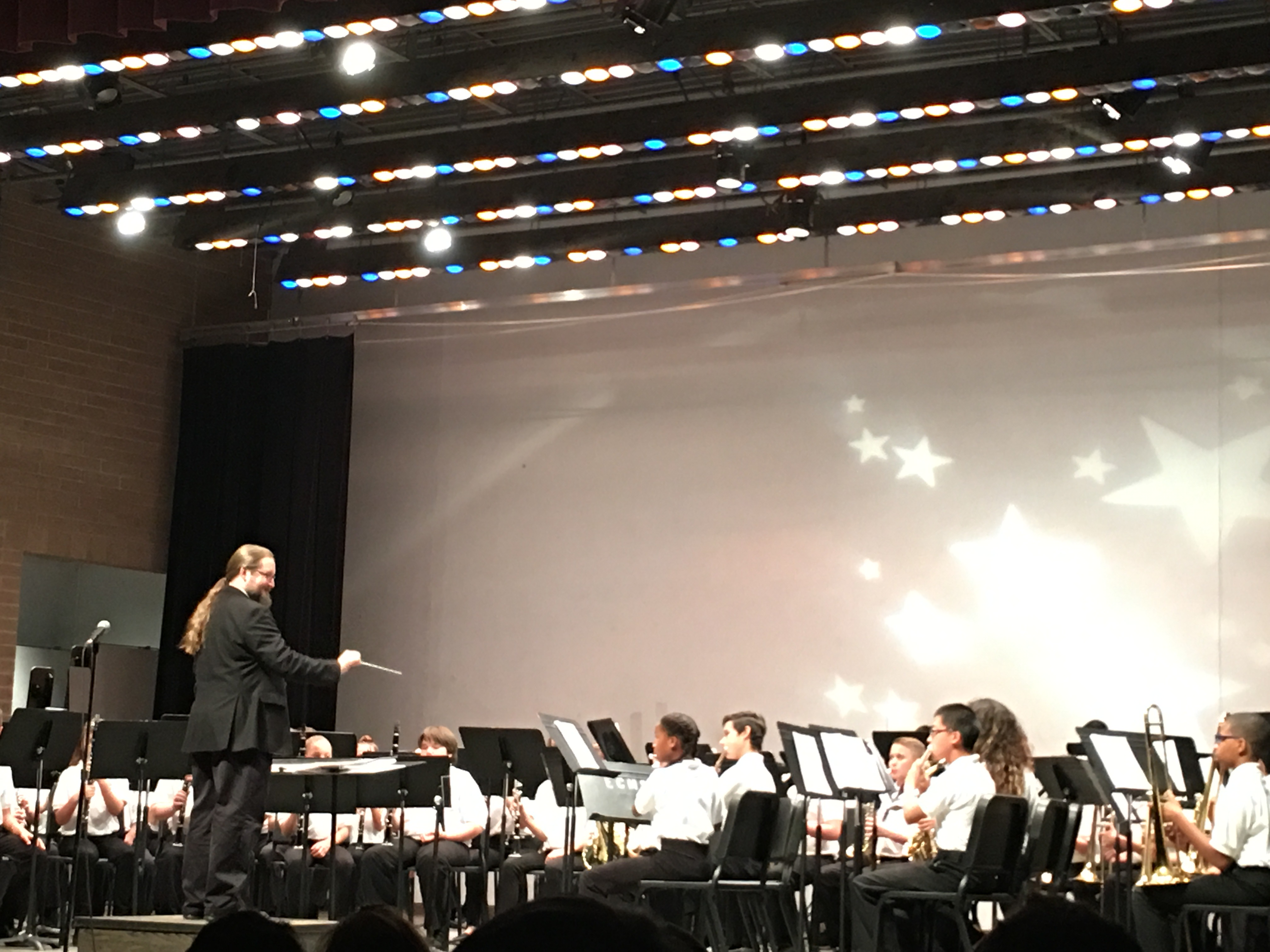 The eighth grade band performs at Esperero Canyon Middle School.